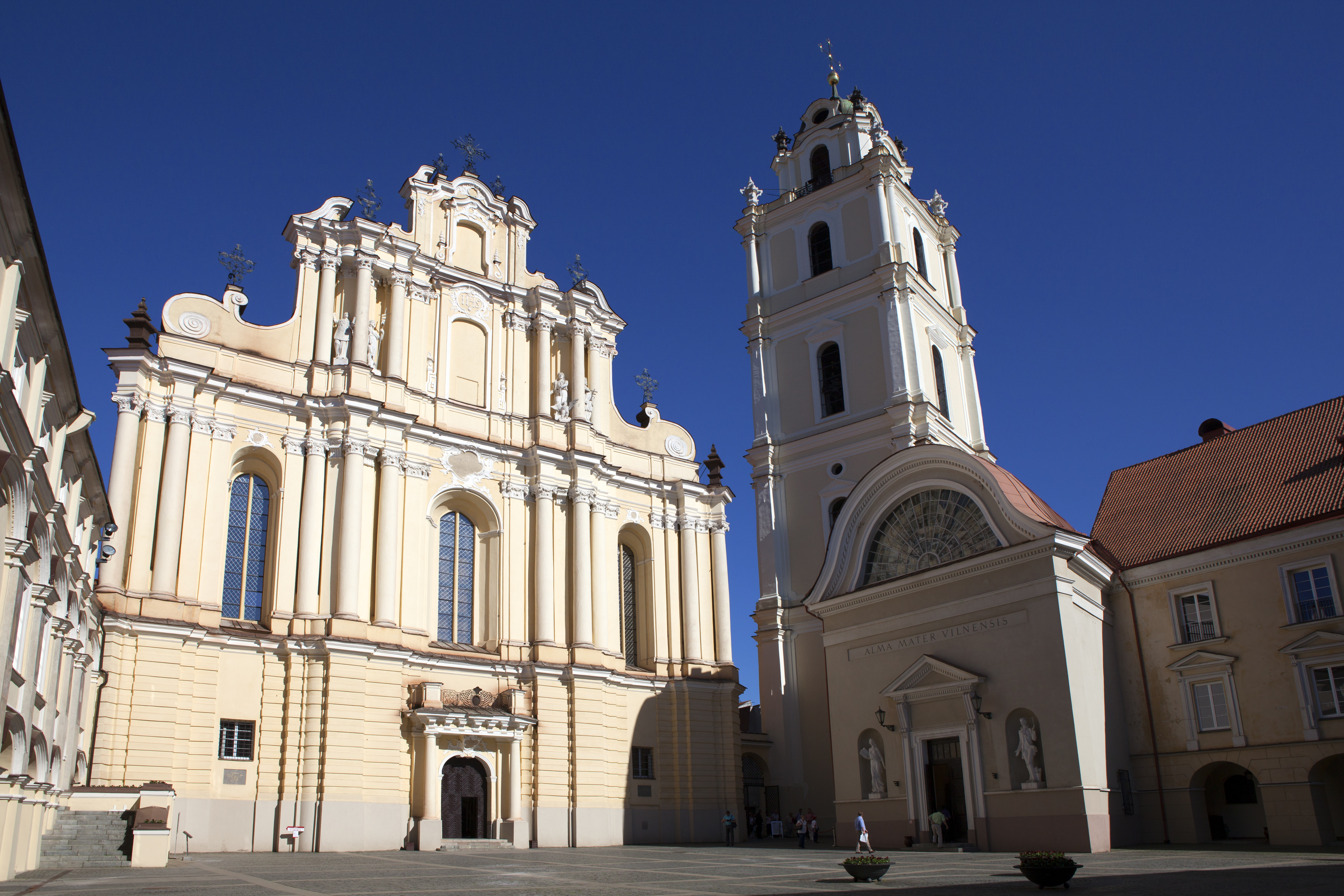 Lithuania, Vilnius. Church of St. John the Baptist and St. John the Apostle and Evangelist.